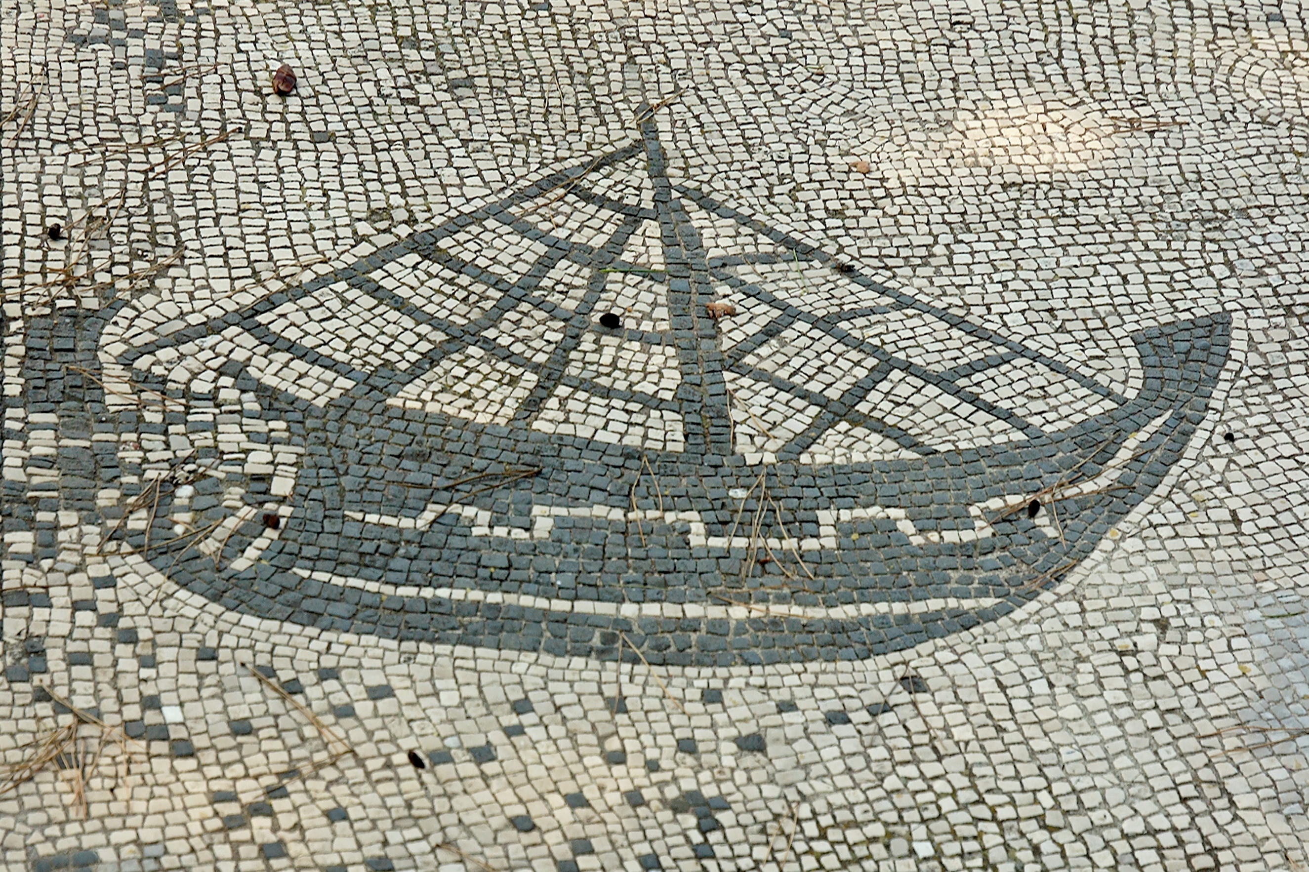 Mosaic with a ship. Statio 55 (detail) of the Piazzale delle Corporazioni, Ostia Antica, Latium, Italy.